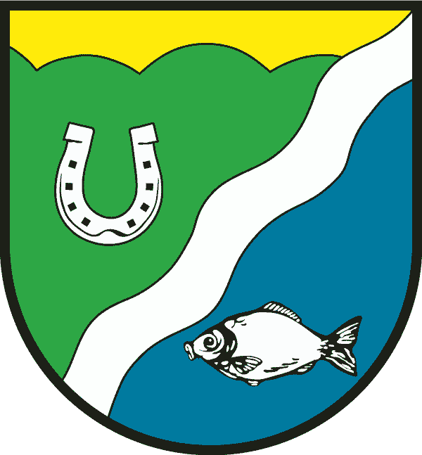 Coat of arms of the municipality Heilshoopin Schleswig-Holstein, Germany.